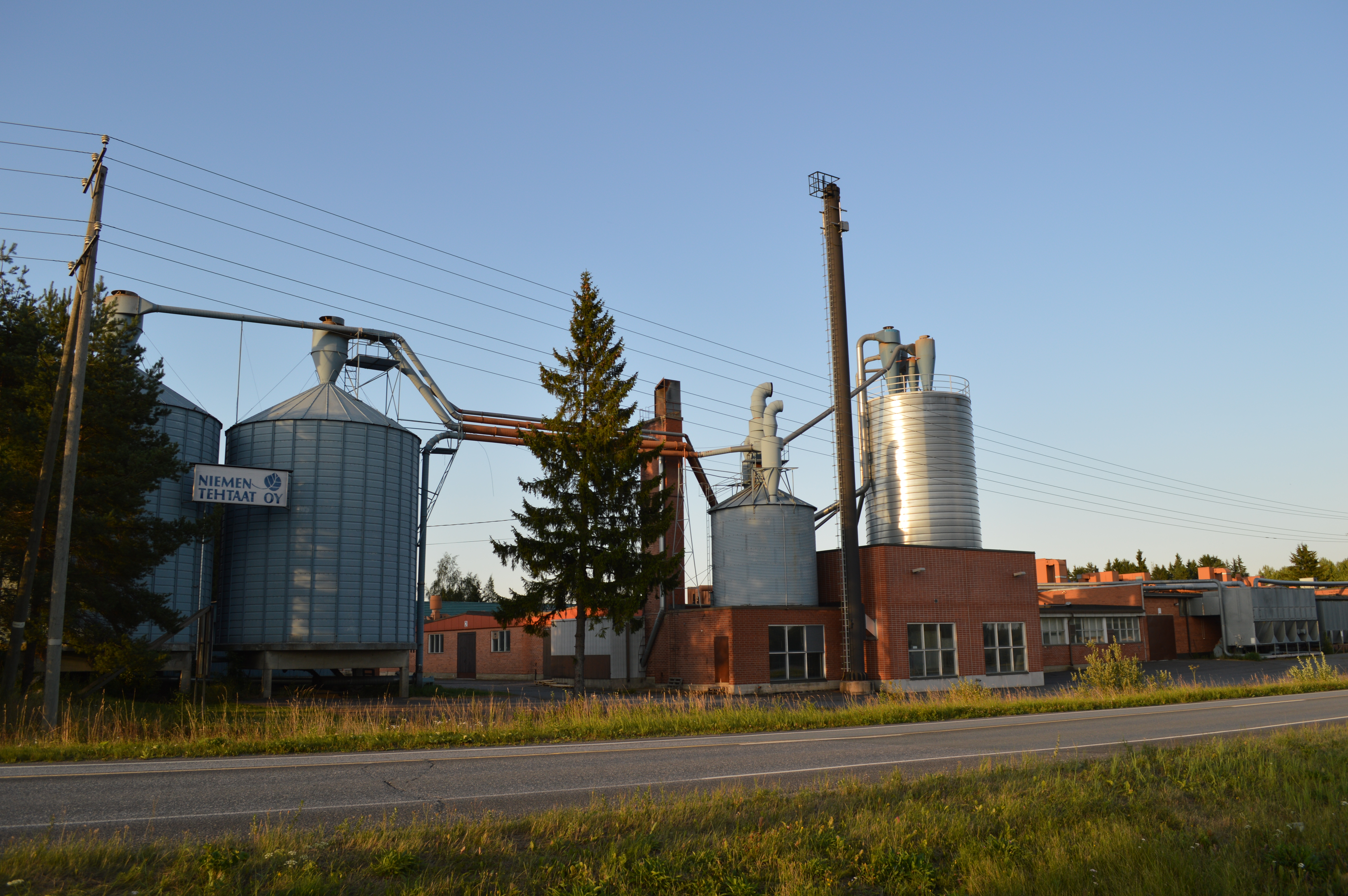 Furniture manifacturer Niemen tehtaat, Vammala